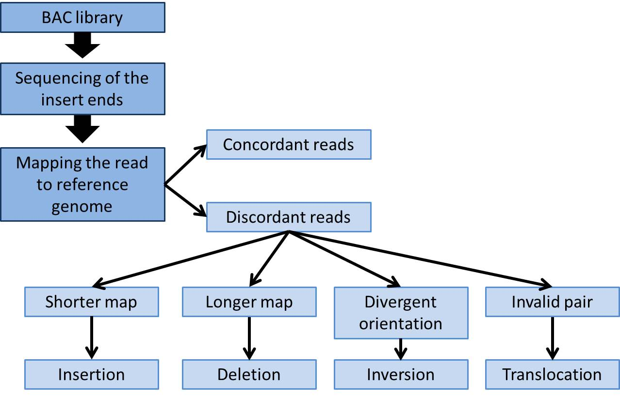 Patrick Coulombe, Own work